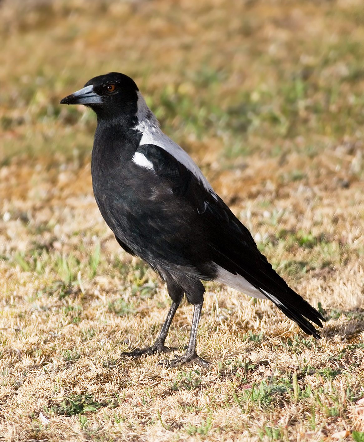 Australian Magpie (Cracticus tibicen hypoleuca) in Tasmania, Australia